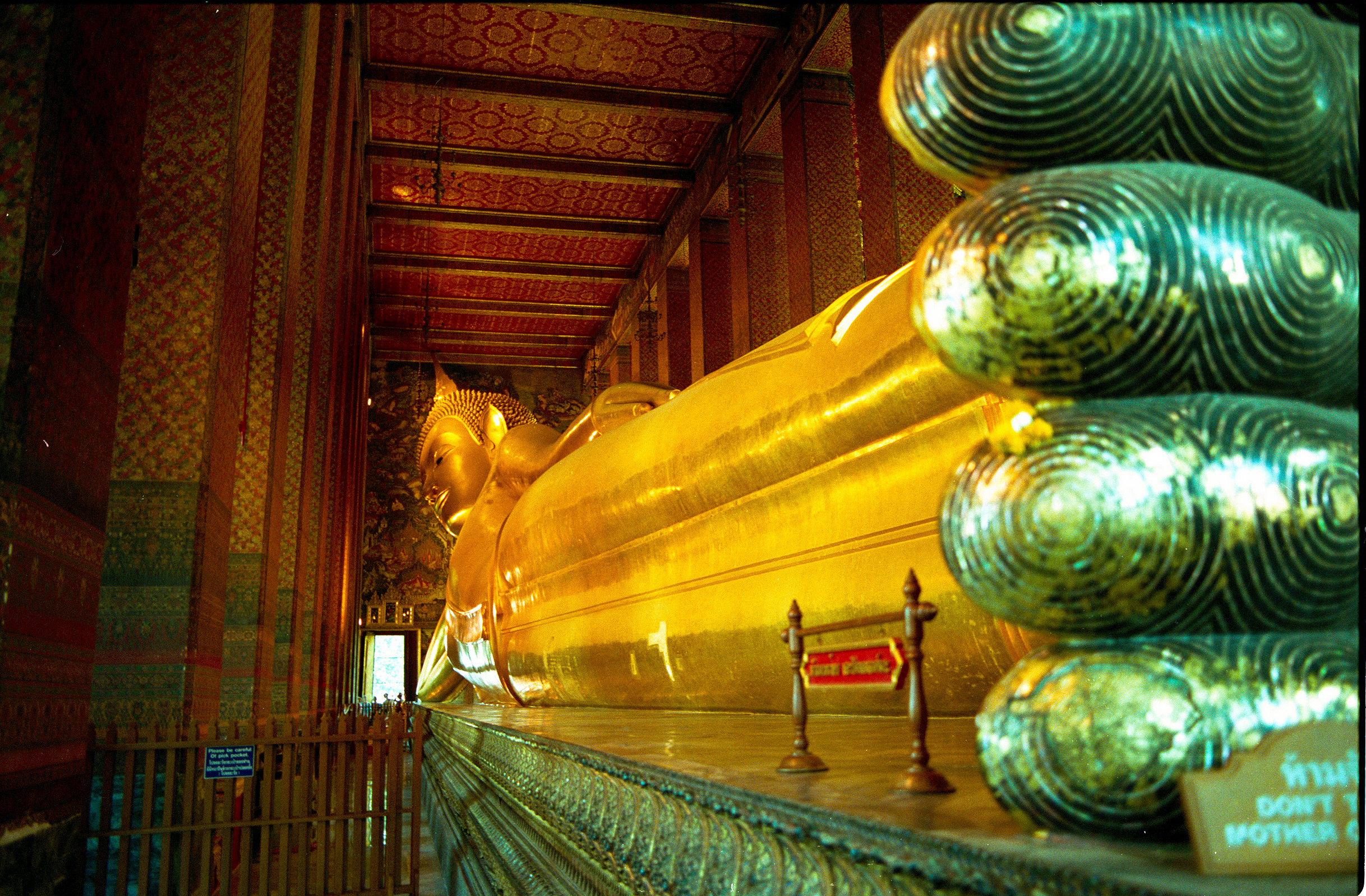 Reclining Buddha, Wat Pho, Bangkok